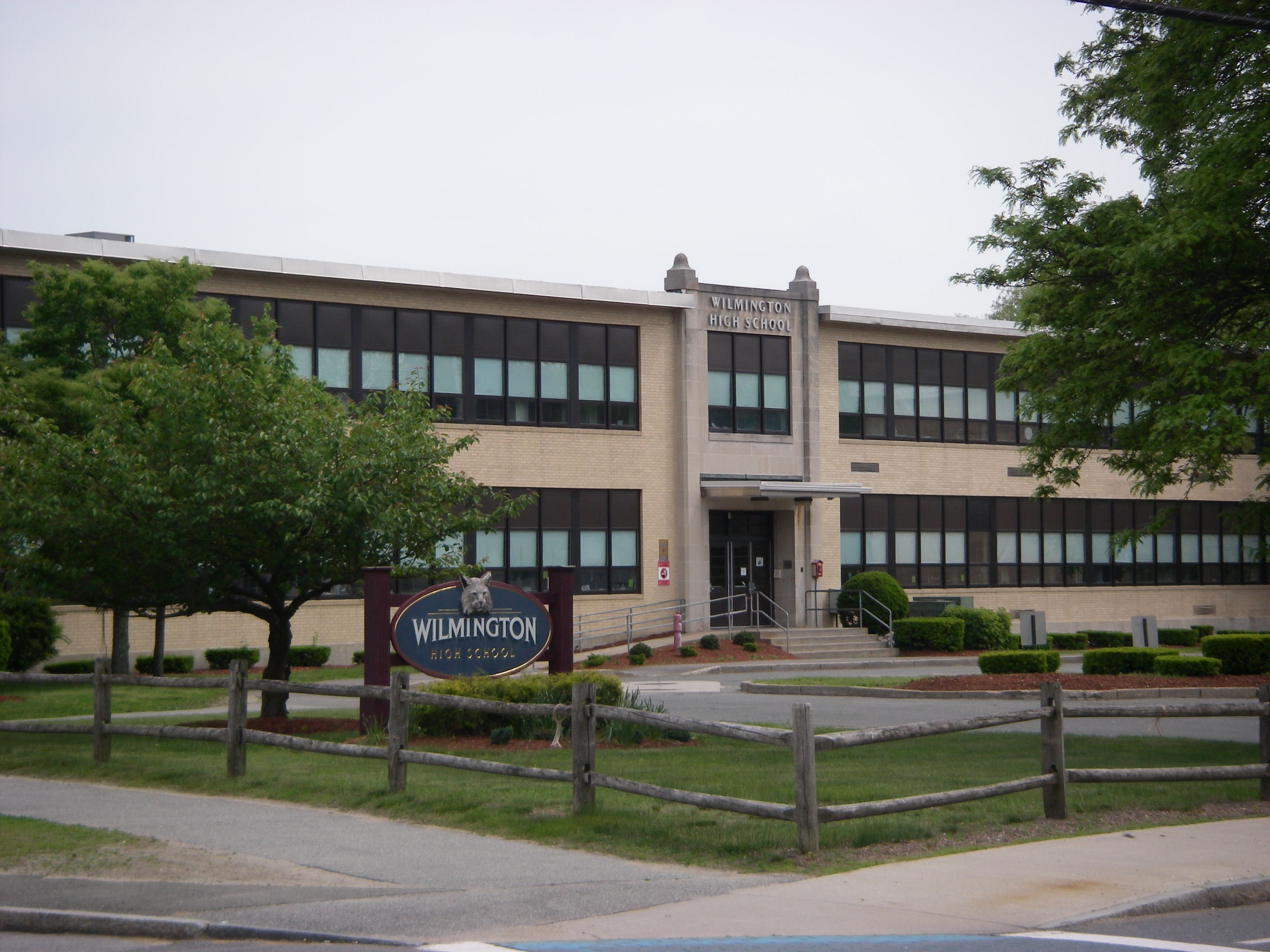 Wilmington Ma. High School entrance